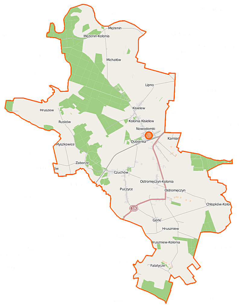 Map of Gmina Platerów, Poland This map of Platerów (gmina) was created from OpenStreetMap project data, collected by the community. This map may be incomplete, and may contain errors. Don't rely solely on it for navigation. Border coordinates52.386522.6689←↕→22.909252.1979